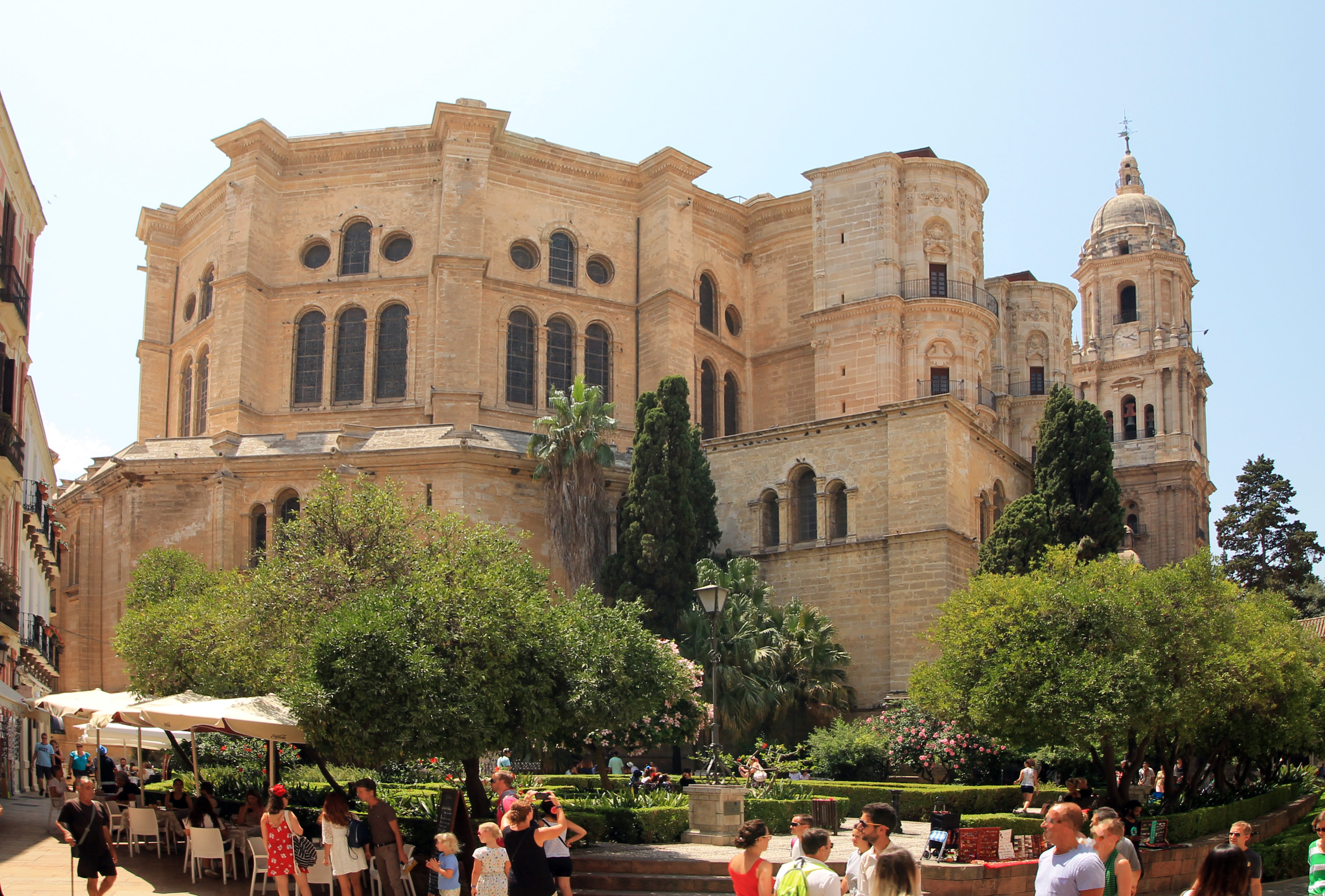 View of the Cathedral of Málaga (Spain) from the north-east angle.